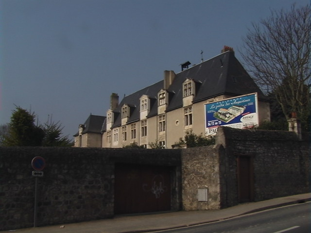 View of the former abbey buildings of Sainte-Croix, Poitiers, France